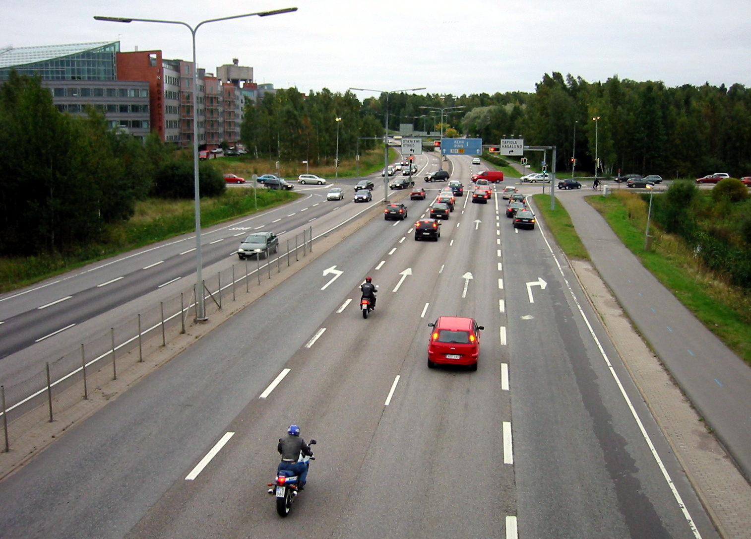 Kehä I (regional road 101) between Otaniemi and Tapiola in Espoo, Finland